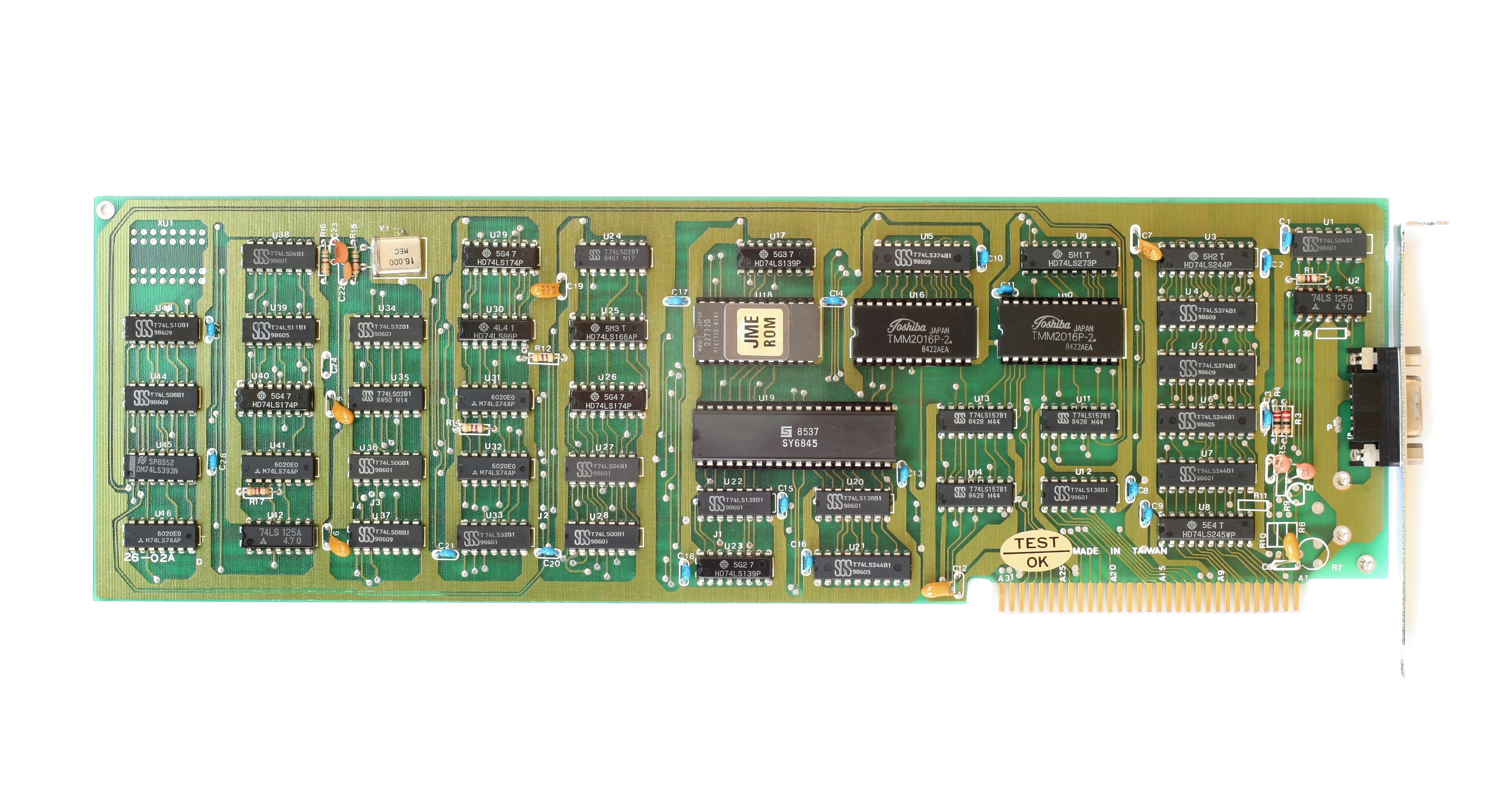 MDA Video card (Wrong filename).